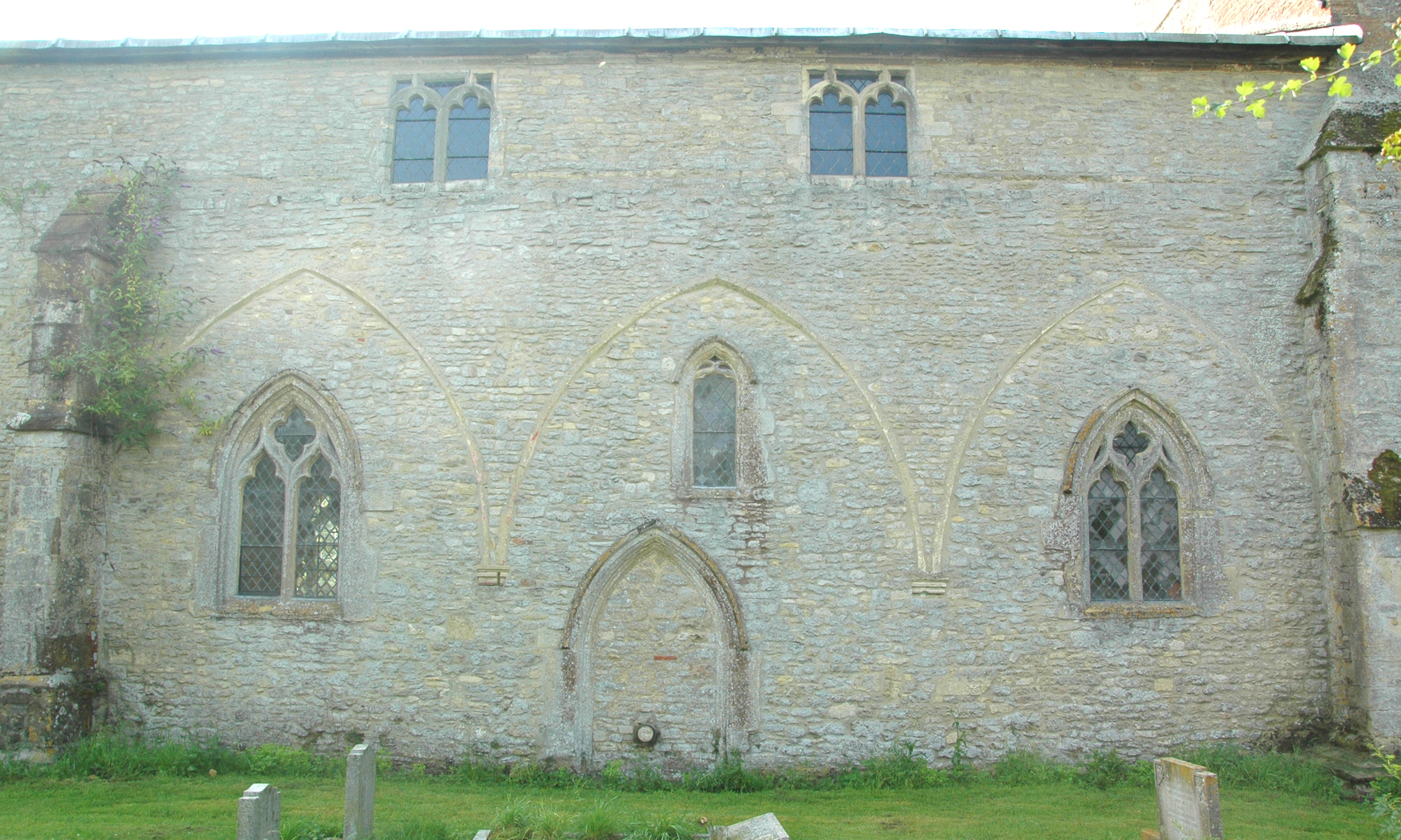 Church of England parish church of St Swithun, Merton, Oxfordshire: blocked three-bay arcade of former north aisle